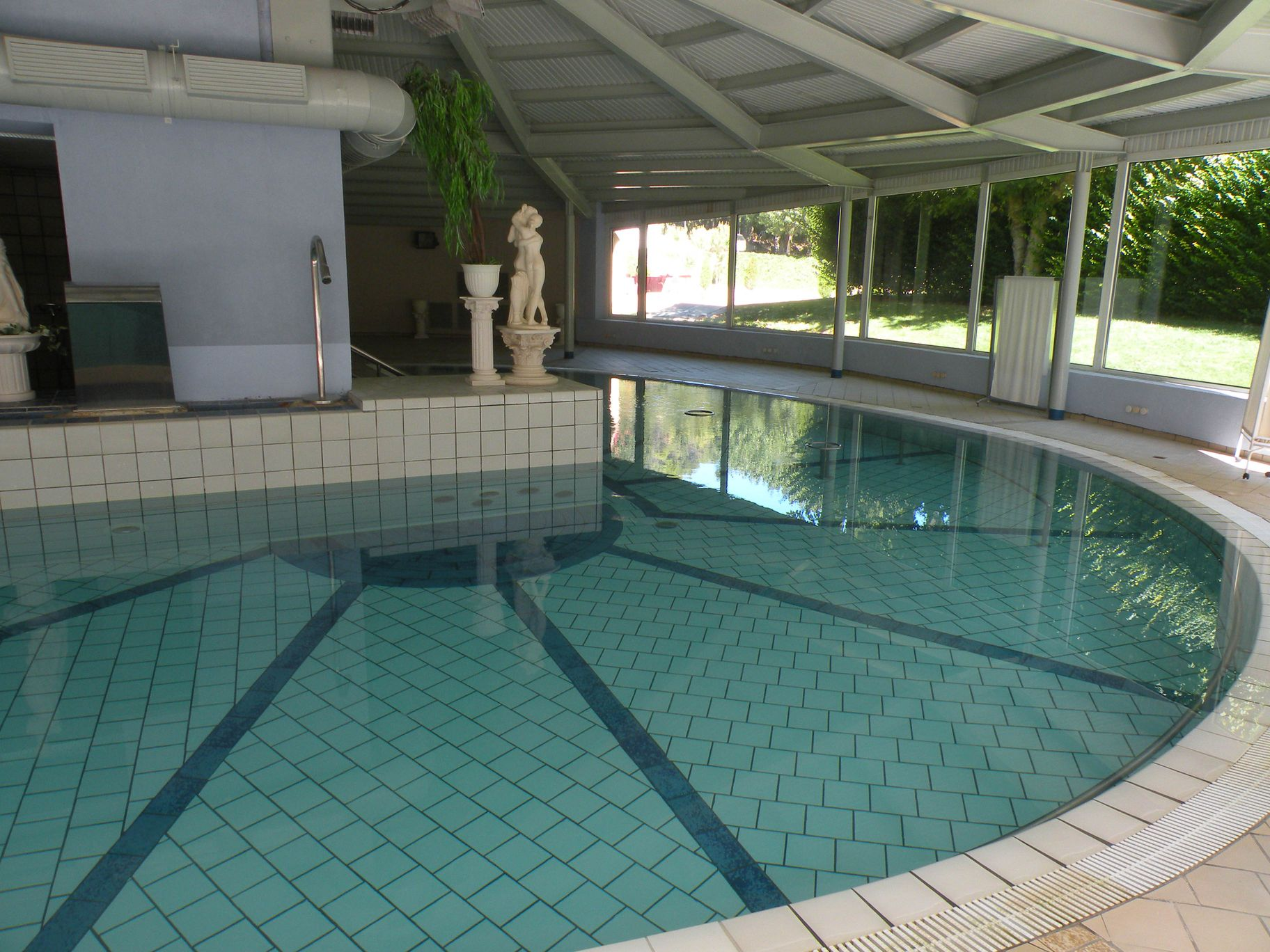 Indoor swimming pool with mineral water. Vallfogona.